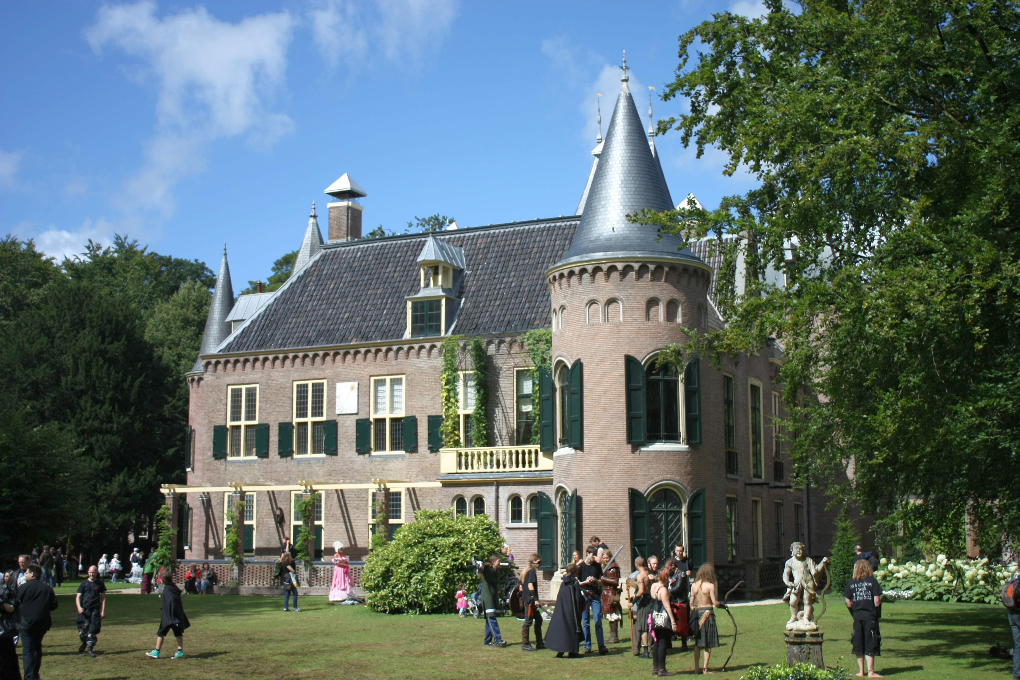 The castle of Castlefest. It looks pretty quiet in front, but that wouldn't last long.